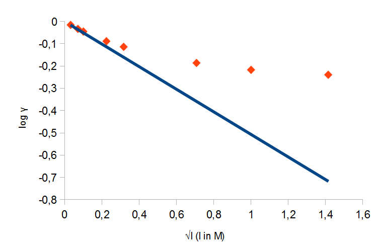 A plot of the logarithm of the mean activity coefficients for KCl, vs the root of the ionic strength of the solution. Blue line: calculated values using the Debye-Hückel limiting law Red dots: experimental values (from Atkins, P.; de Paula, J. Atkins’ Physical Chemistry, ninth ed.; Oxford University Press, 2010; p 927.) Both at 298 K